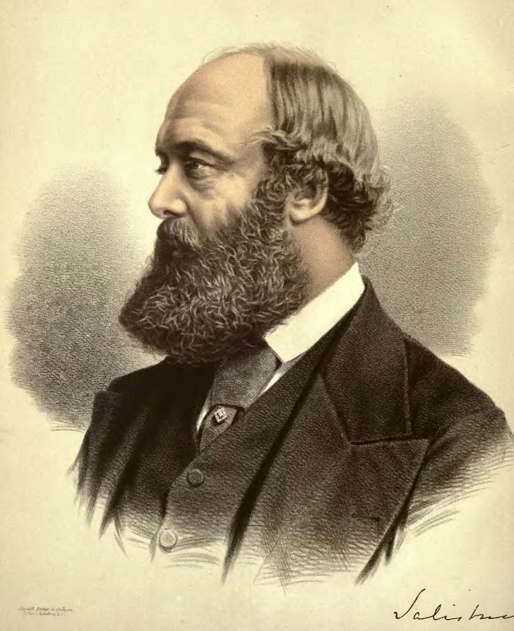 Robert Gascoyne-Cecil, 3rd Marquess of Salisbury